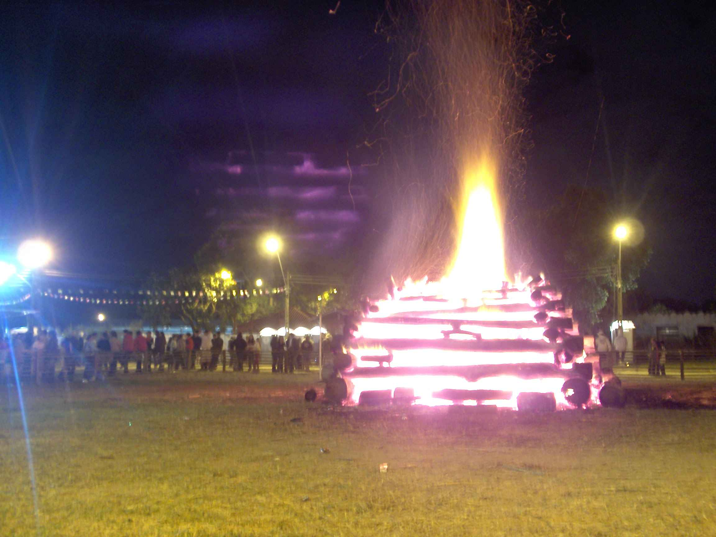 A nice fire, a Brazilian tradition during the Festa Junina.